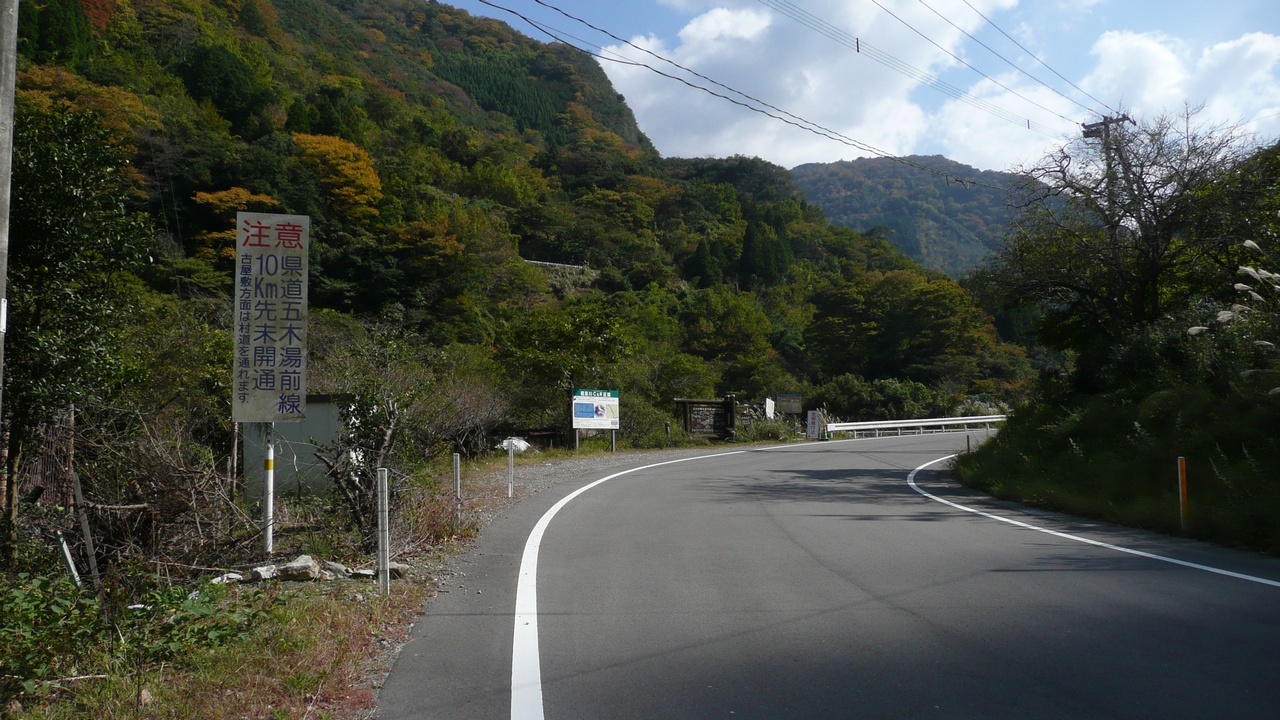 Kumamoto Prefectural Road No.161 Origin (Itsuki Village, Kumamoto, Japan)